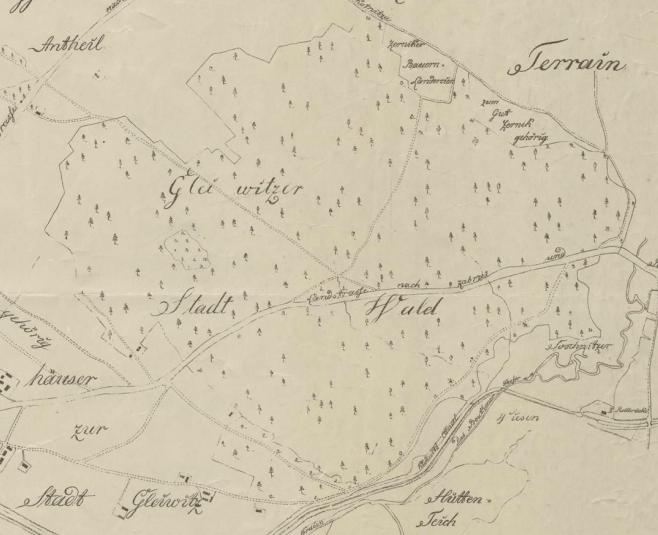 Der Gleiwitzer Stadtwald im Jahr 1812. Zeichnung von 1911 nach alten Karten